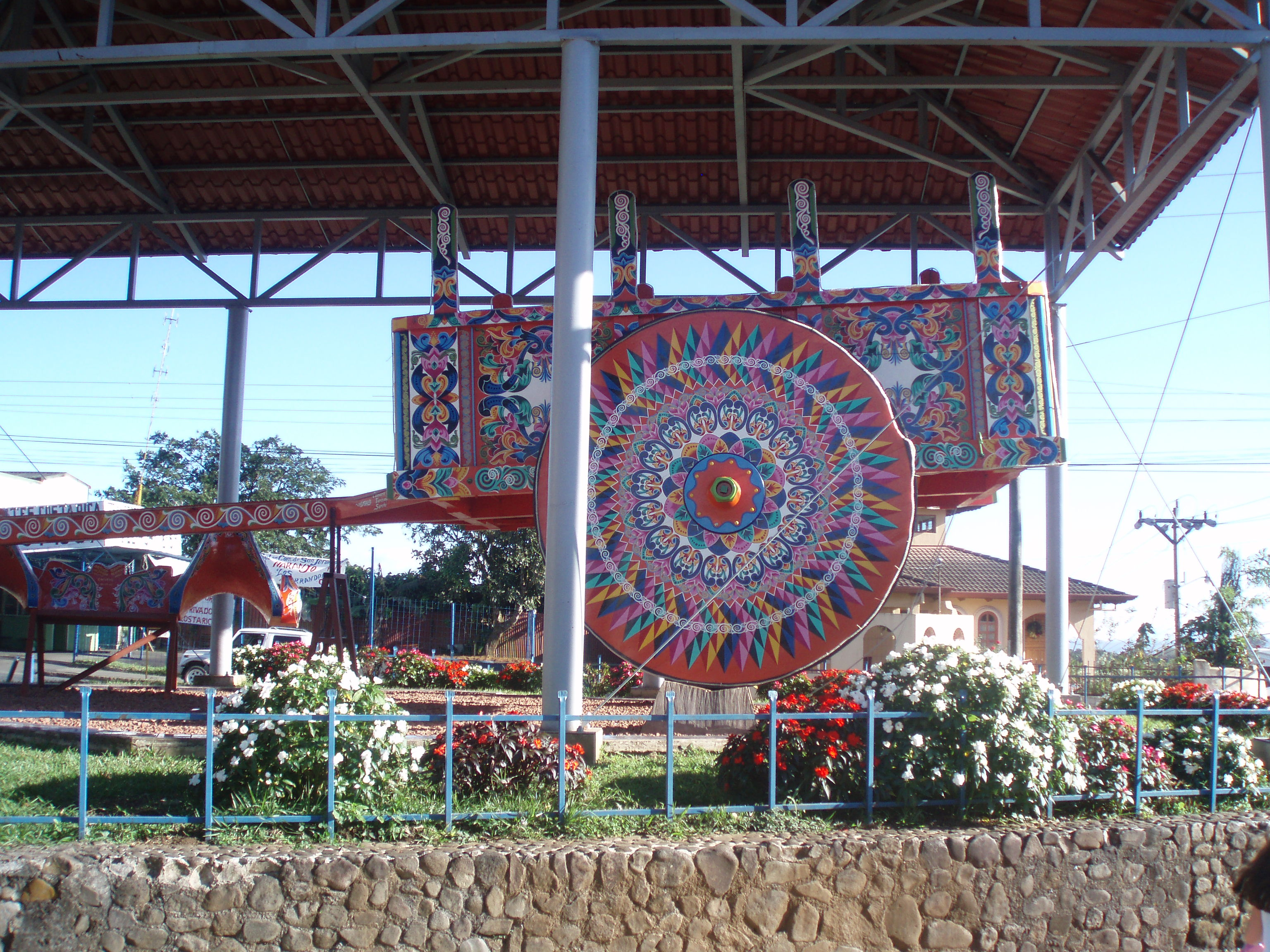 A Picture of the World's Largest Oxcart